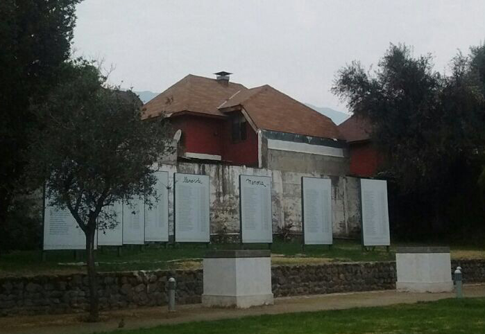 Inscritos los nombres de los detenidos desaparecidos y ejecutados políticos que estuvieron en la Villa Grimaldi